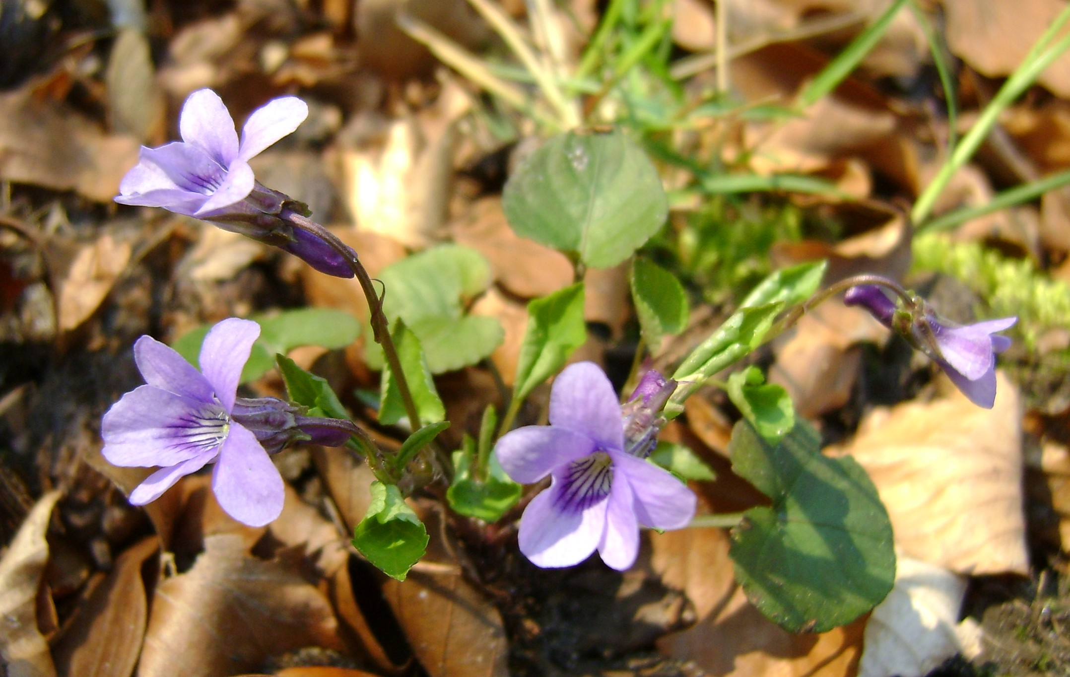 Viola reichenbachiana